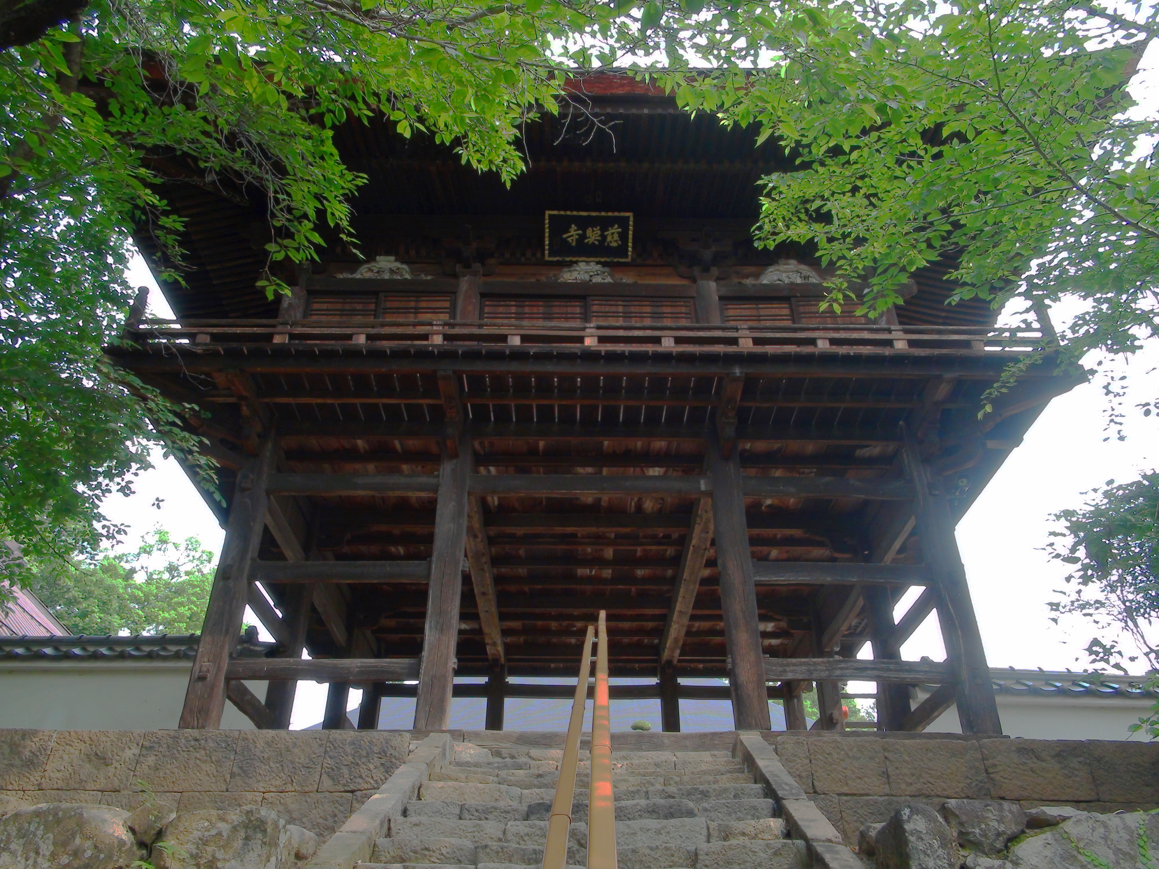 Jishoji Temple main gate Kai city